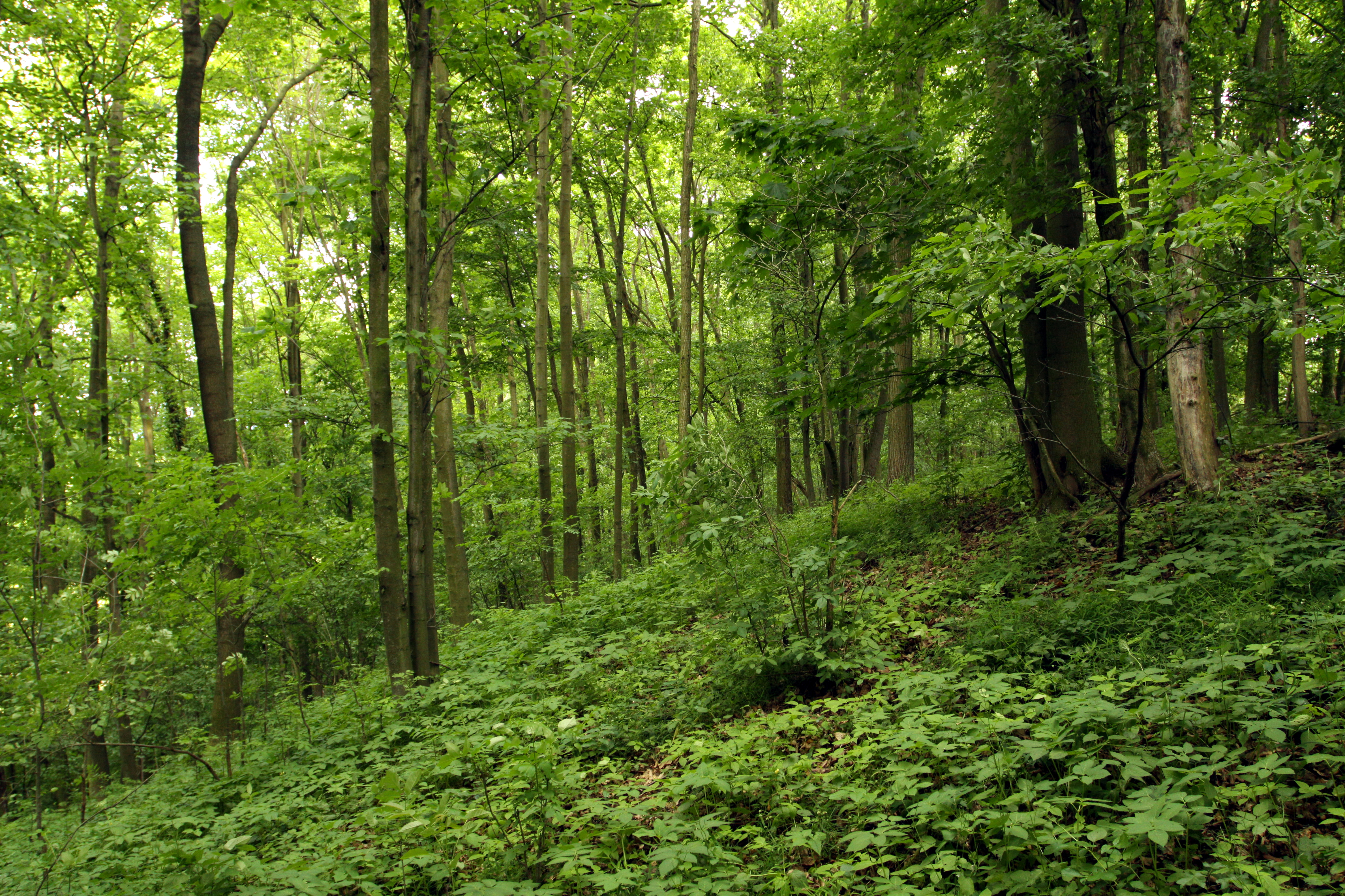 Nature reserve Šestajovická stráň near Šestajovice village, Náchod District, Czech Republic